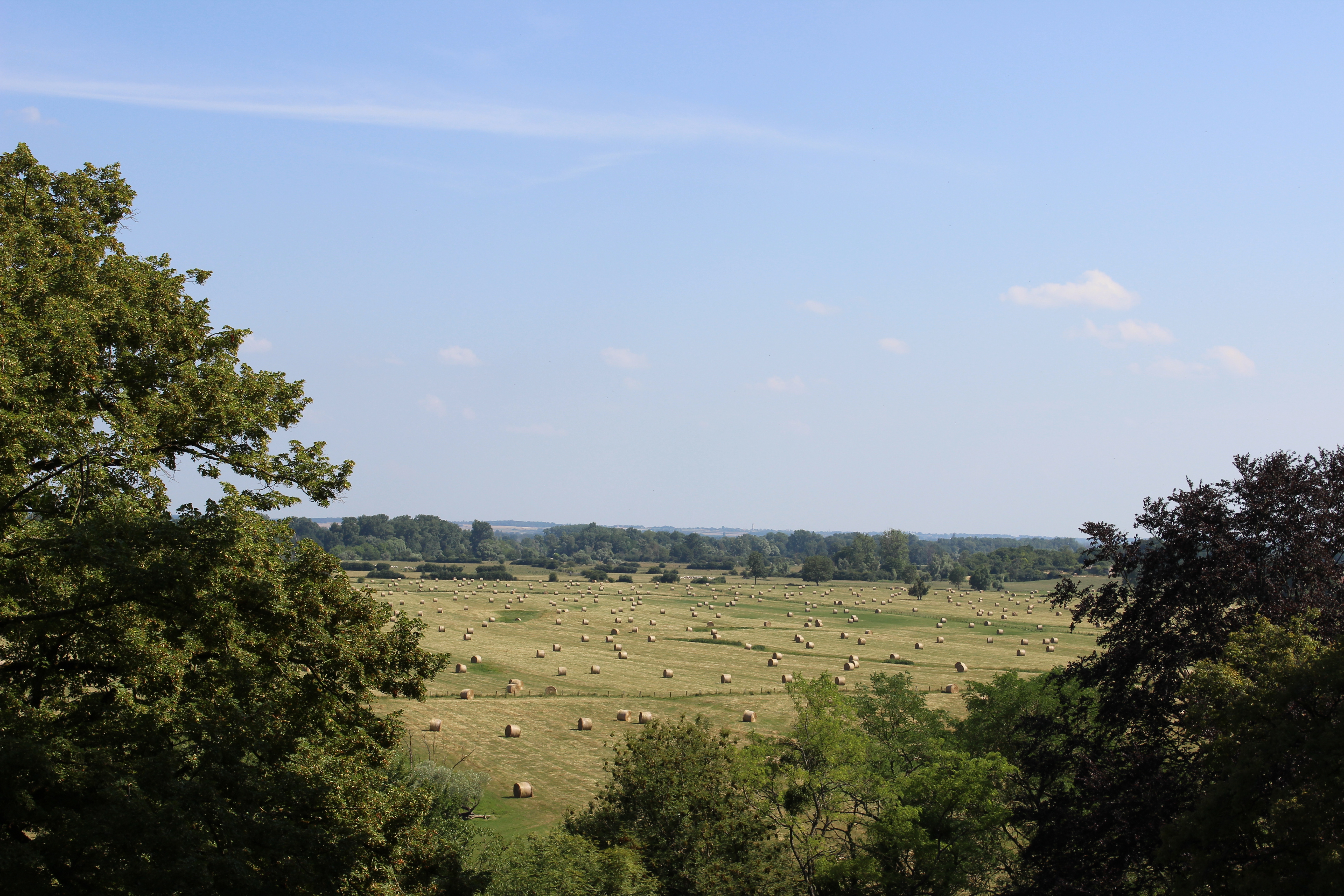 Sologne Bourbonnaise in the southern part of Nièvre, France.